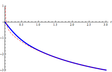 Riemann Siegel theta function (blue) and its asymptotic expansion (dashed) truncated after 1/(48*t).